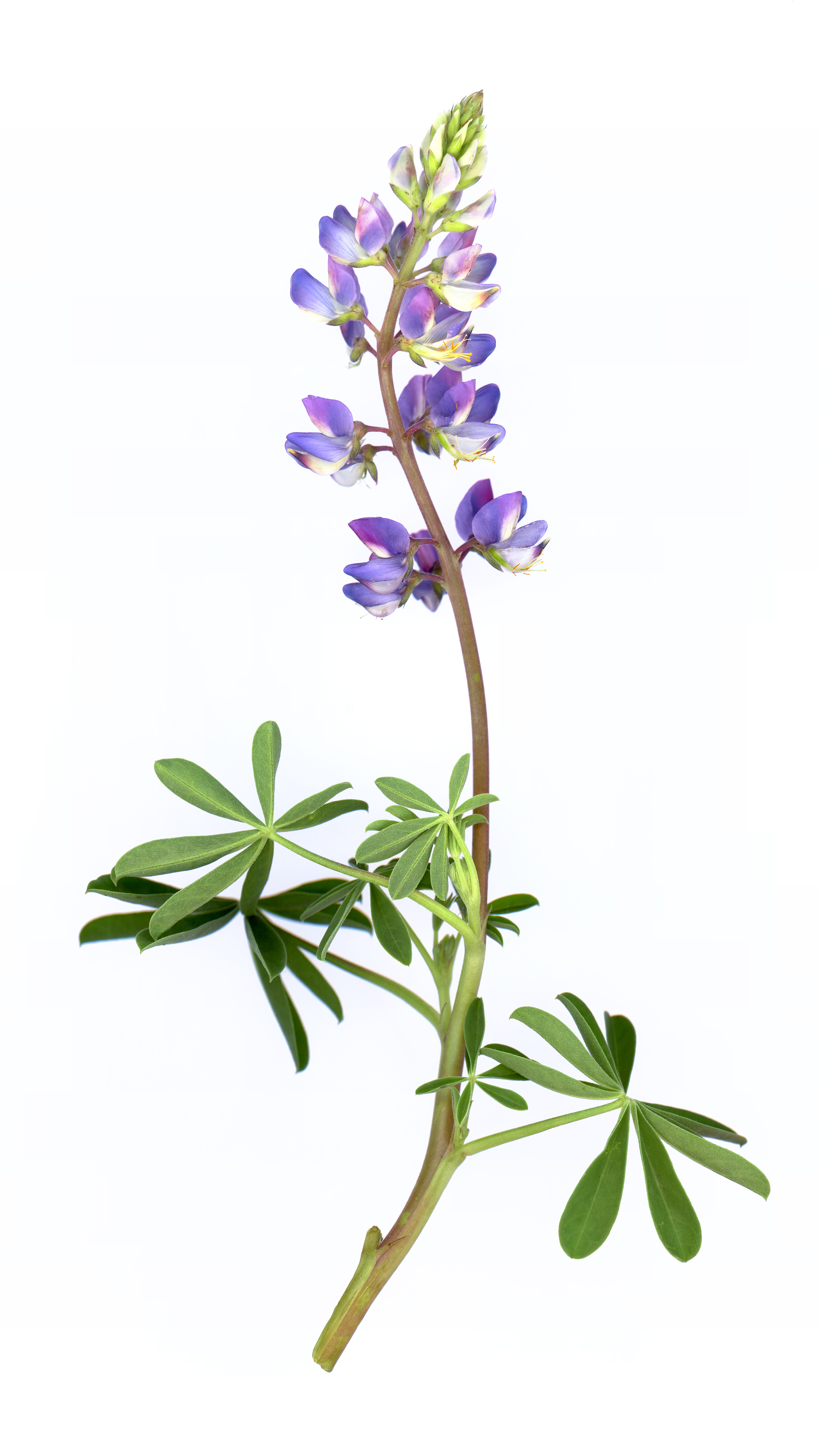 Botanical-Illustration like scan of Lupinus Succulentus also known as Arroyo Lupine with a flower cross section to show flower internal structure.